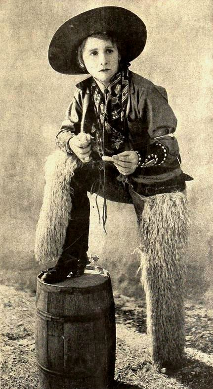 American actress Bessie Barriscale in a "flachbacks" article on page 3 of the January 1919 Film Fun, a still from the American western comedy film Two-Gun Betty (1918).